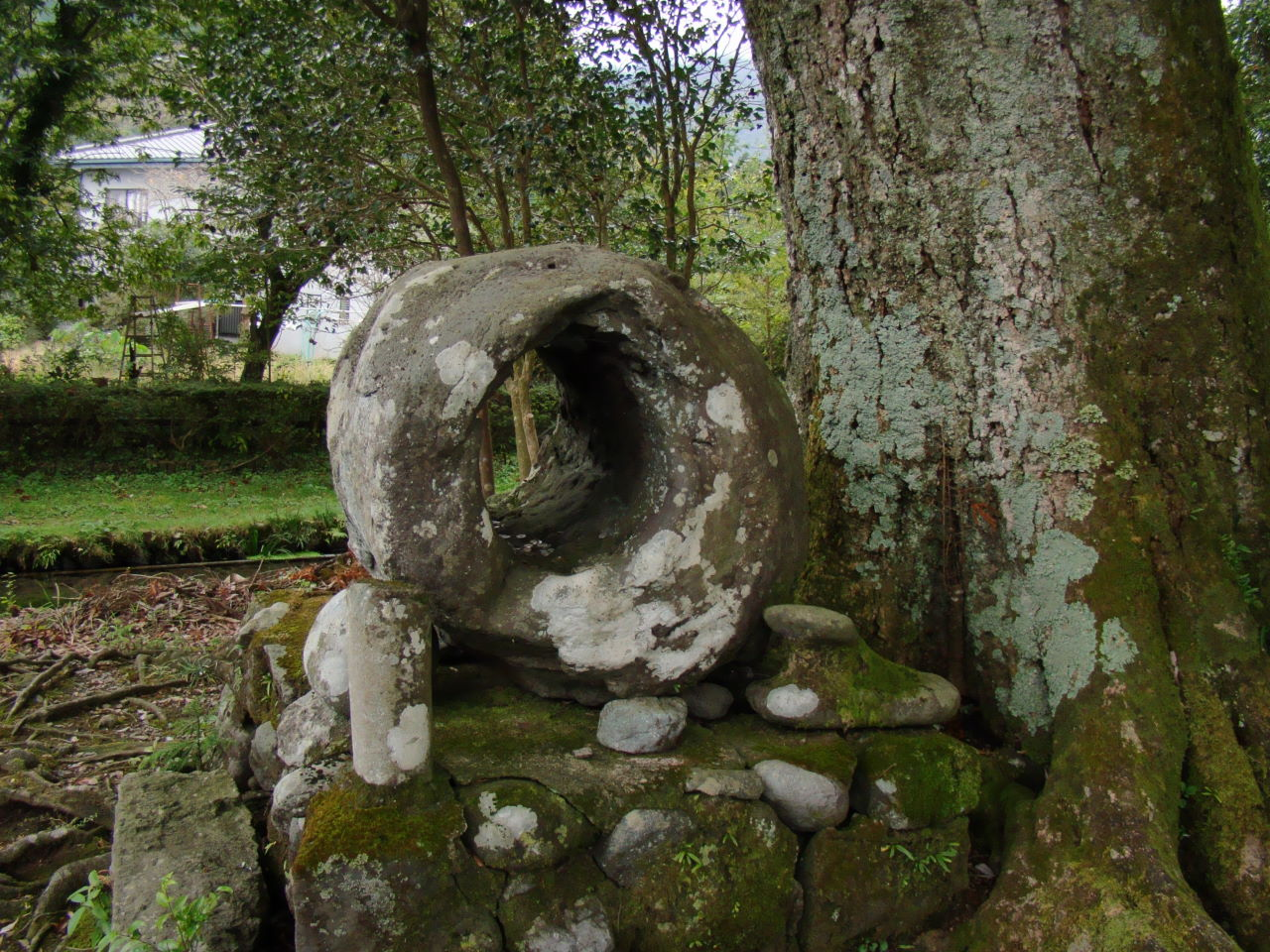 Taiko-rock in Fujinomiya-city Shizuoka Japan